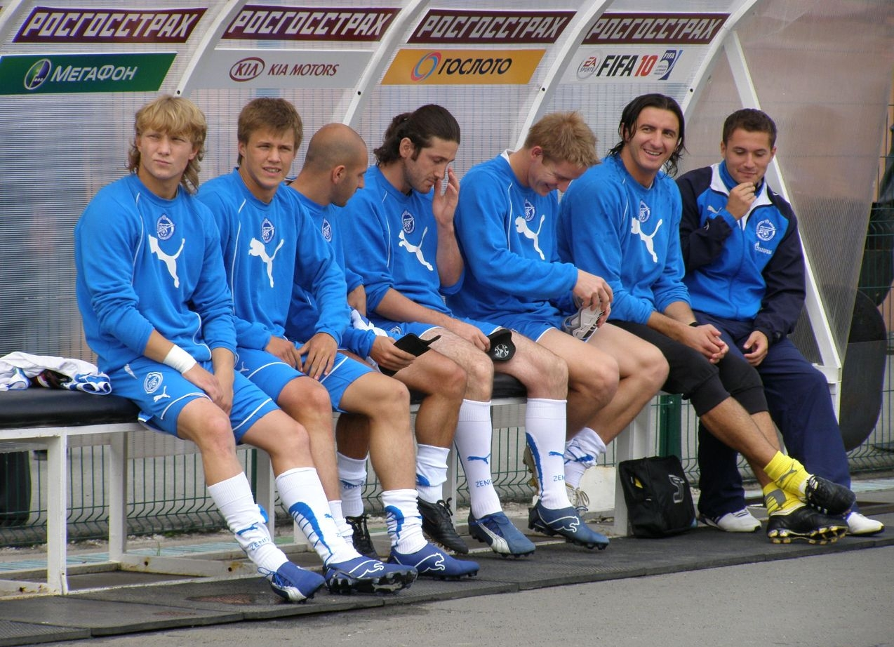 FC Zenit St. Petersburg reserve in match with FC Amkar. From left to right: Pavel Ignatovich, Maxim Kanunnikov, Alessandro Rosina, Fatih Tekke, Tomáš Hubočan, Kamil Čontofalský